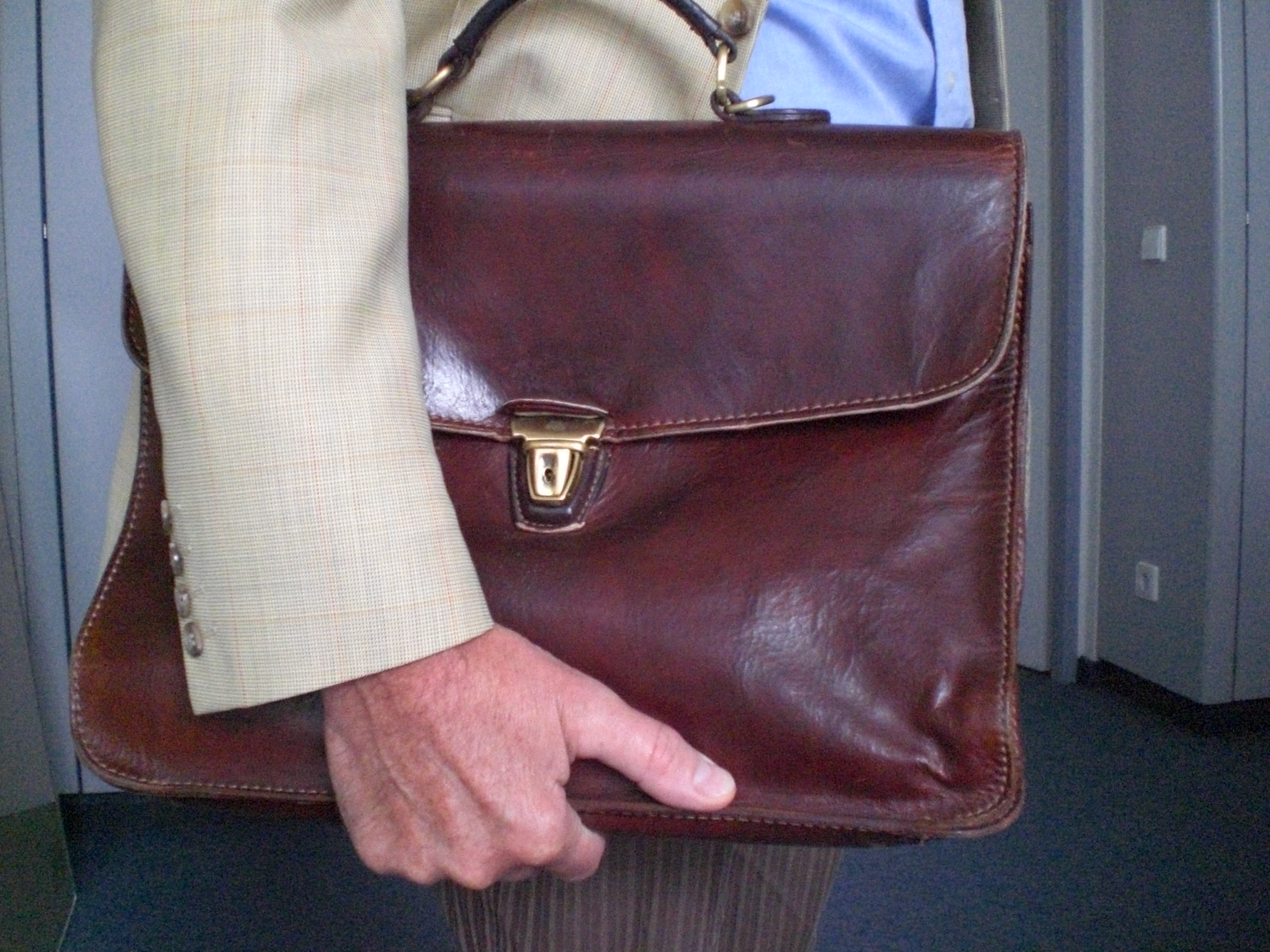 brief case